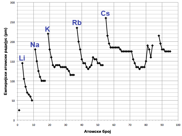 A plot of atomic number against empirical atomic radius, measured in picometers, created in Microsoft Excel 2008. [in Serbian]